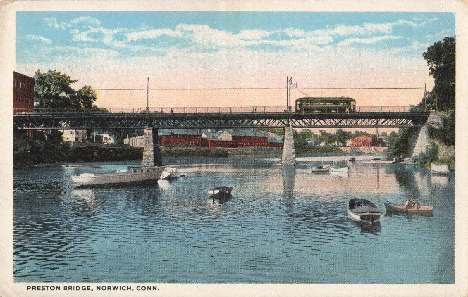 A Norwich & Westerly Railway trolley crosses Preston Bridge between Preston and Norwich in this postcard view. The bridge has since been replaced with a modern concrete bridge carrying Route 2.